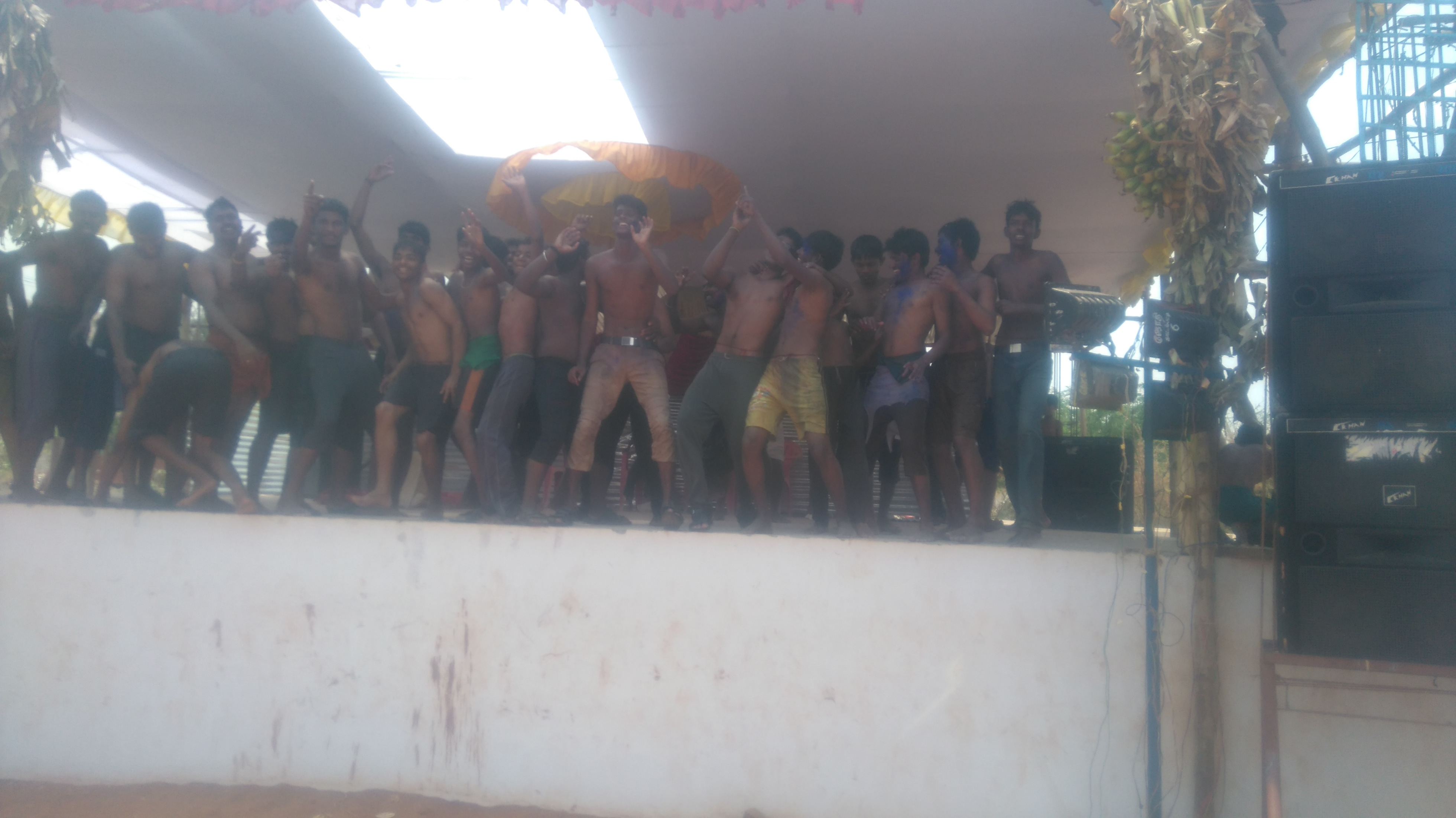 festival